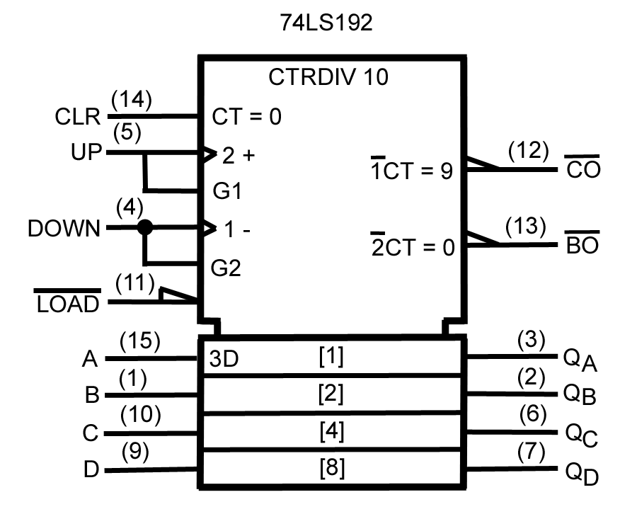 A synchronous 4-bit up/down decade counter symbol (74LS192) in accordance with ANSI/IEEE Std. 91-1984 and IEC Publication 60617-12. This logic symbol is based on the TI SN74LS192 datasheet. This was the first edition of the TTL Data Book that used the IEEE Std. 91 symbols. Volume 1 contained a tutorial on how to read and create these symbols.[1] The tutorial was written by Fred Mann, the TI representative on IEEE subcommittee that created this style of symbols. He was also on the IEC technical committee. This symbol is also similar to figure 5.13-16 in IEEE Std 91A-1991. This image was drawn using Adobe Photoshop Elements 3.0 by Michael Holley, June 2007.